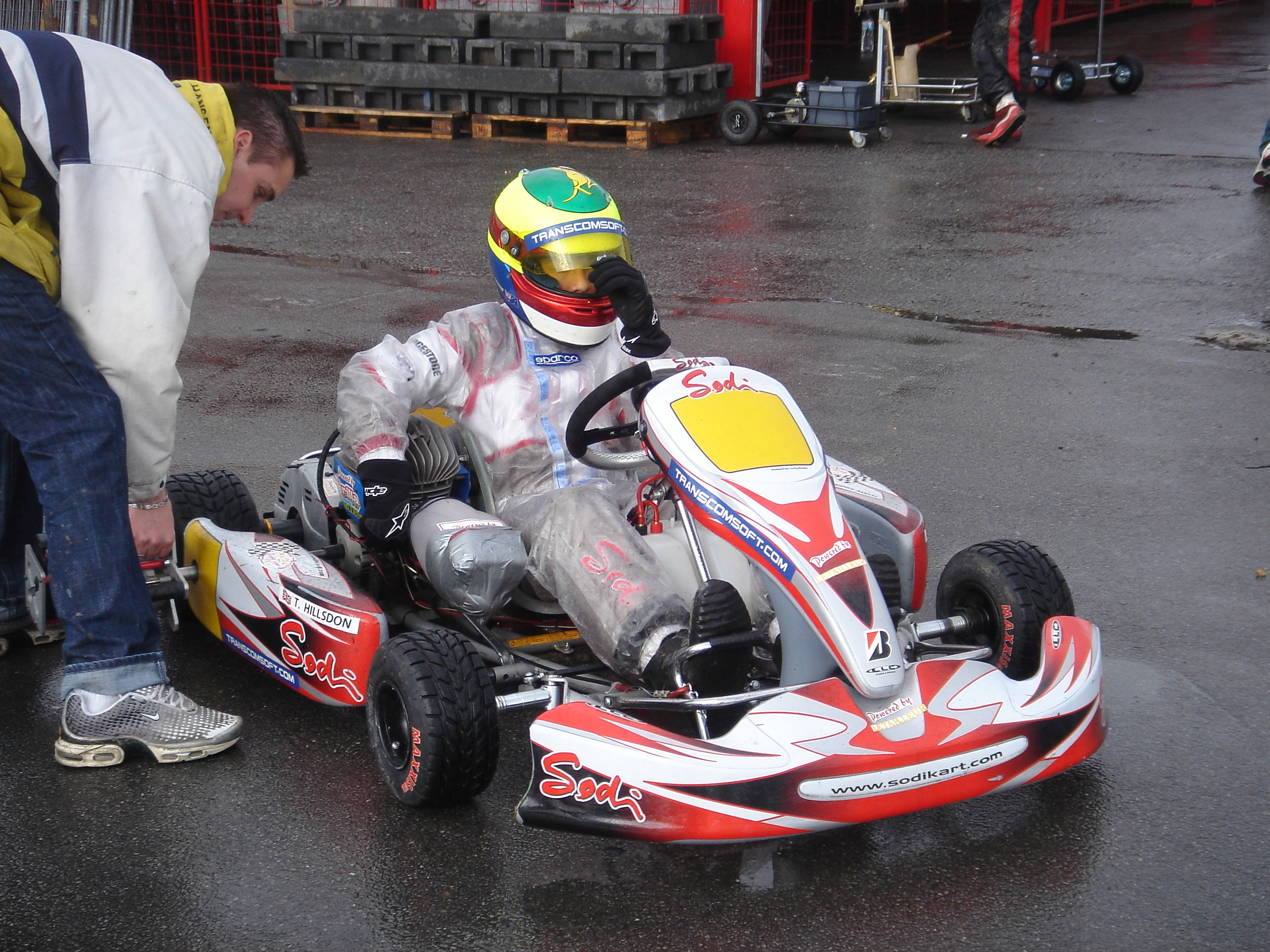 The Old Junior engine which had be started up with an external starter